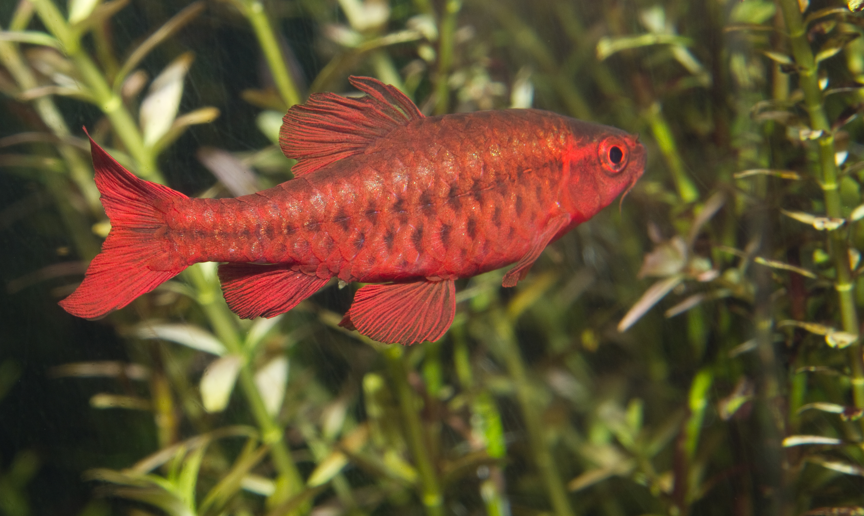 The cherry barb, Puntius titteya is a tropical fish belonging to the spotted barb genus of the Cyprinidae family. It is native to Sri Lanka, and introduced populations have become established in Mexico and Colombia. The cherry barb was named Puntius titteya by Paul E. P. Deraniyagala in 1929. It has also been referred to as Barbus titteya and Capoeta titteya. The species is commercially important in the aquarium trade, and the more colorful varieties are in danger of being overfished for this industry. They were listed as a Lower Risk/conservation dependent species in 1996.[1]